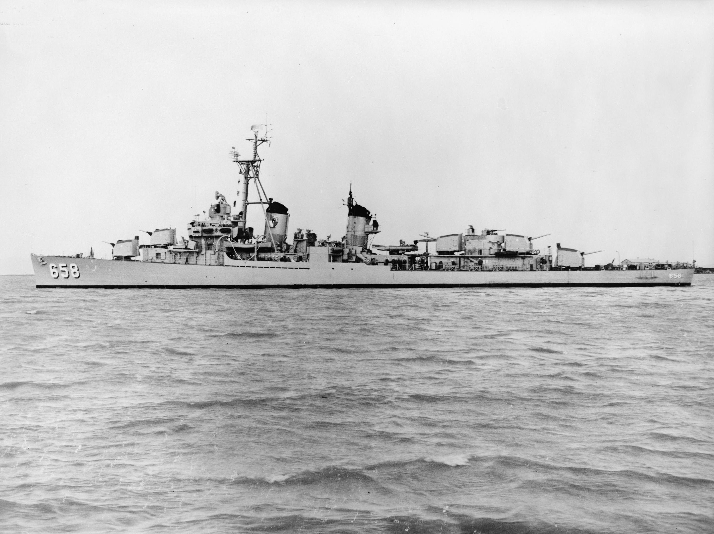 The U.S. Navy destroyer USS Colahan (DD-658) off the Mare Island Island Naval Shipyard, California (USA), on 12 March 1957. She was in overhaul at the yard from 7 December 1956 to 11 March 1957.